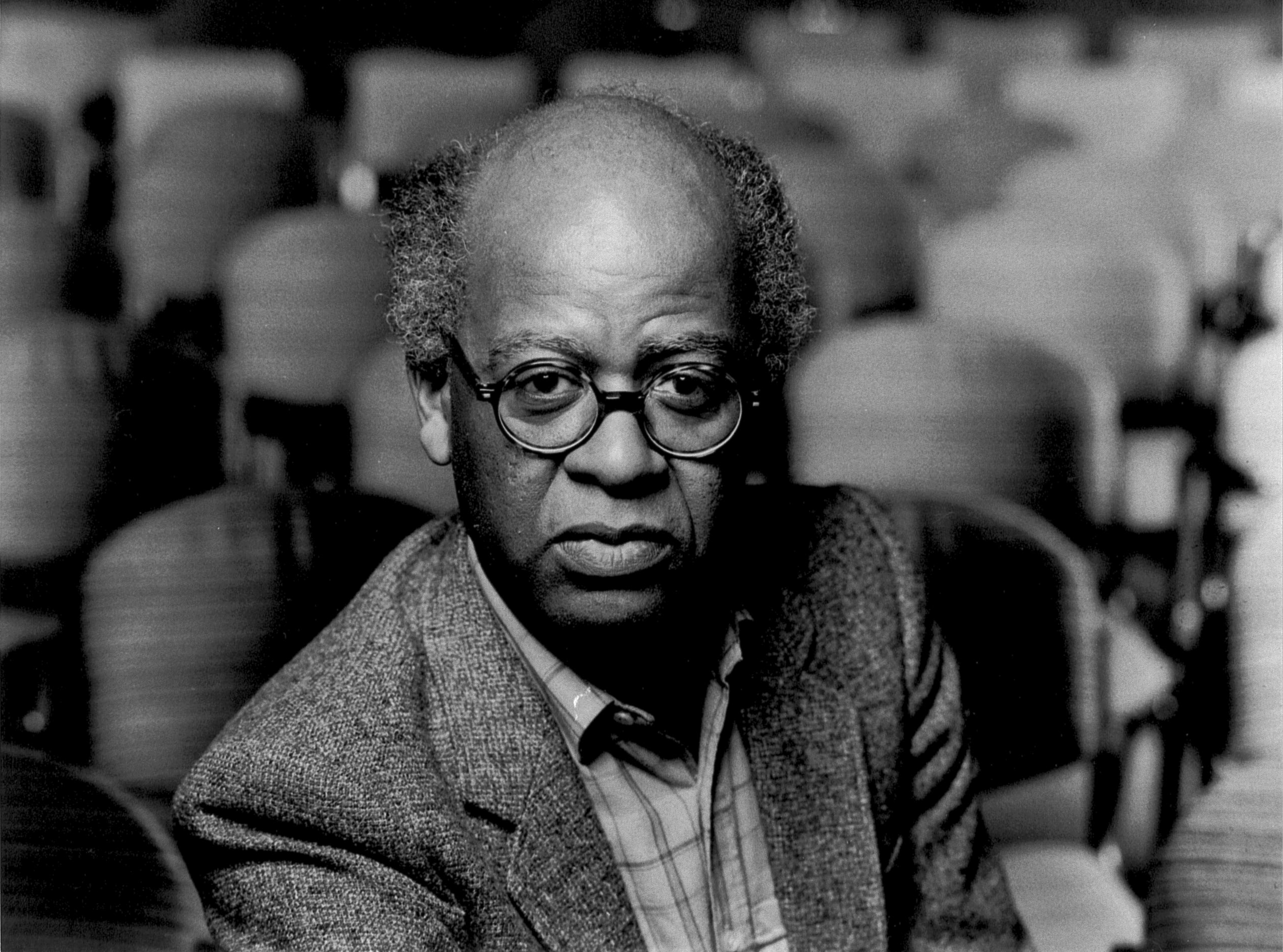 Ernest Martin in the Mid-1990s